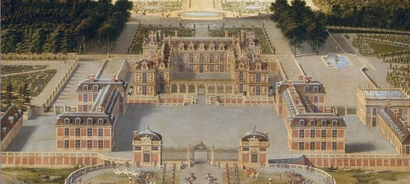 Detail from the painting by Pierre Patel of the Palace of Versailles circa 1668 (Versailles Museum). The château is depicted shortly after the completion of the first building campaign, before the addition of the enveloppe designed by Louis Le Vau.